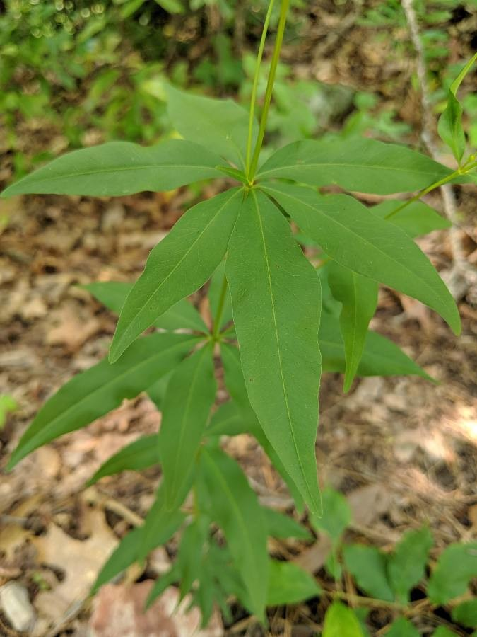 Coreopsis major, tickseed, leaves